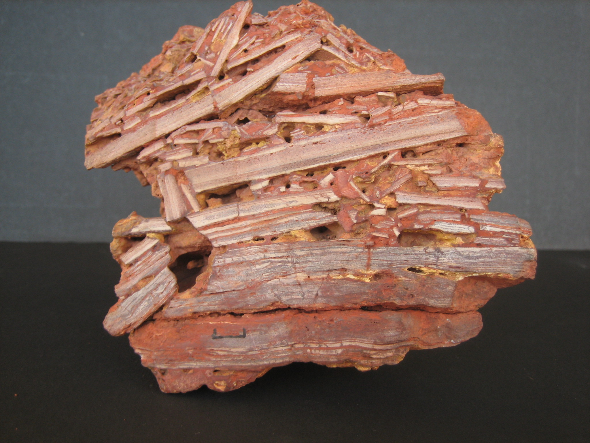 Bauxite specimen with relict stratification of the parent rock (slate),Fria, Guinea (scale:1cm)